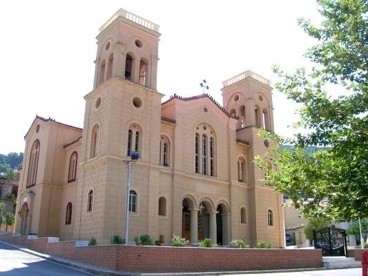 Koimisi tis Theotokou church in Desfina, Fokida, Greece